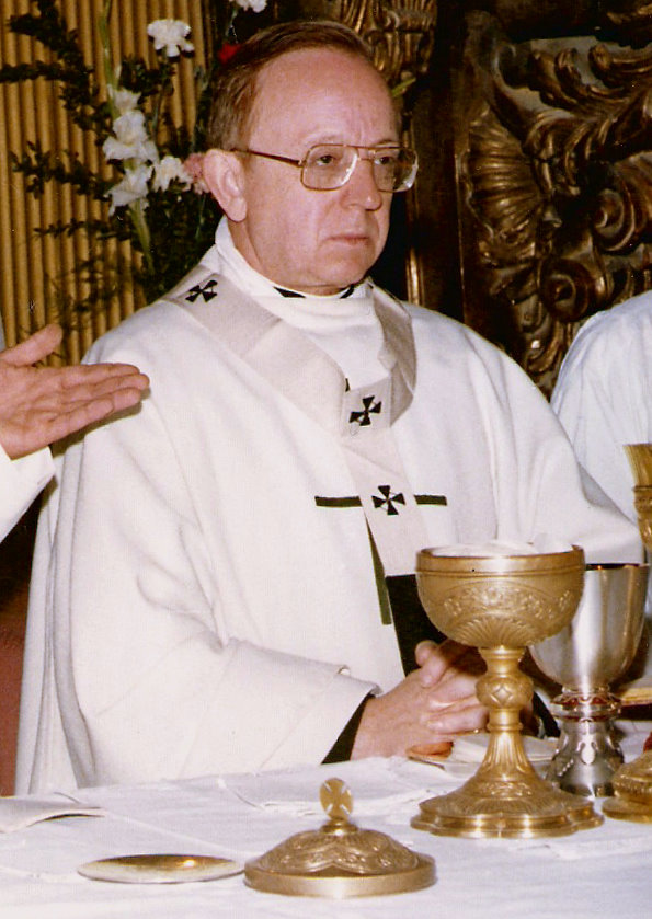 Archbishop Emeritus of Valladolid José Delicado Baeza in Campaspero, Valladolid (1981).